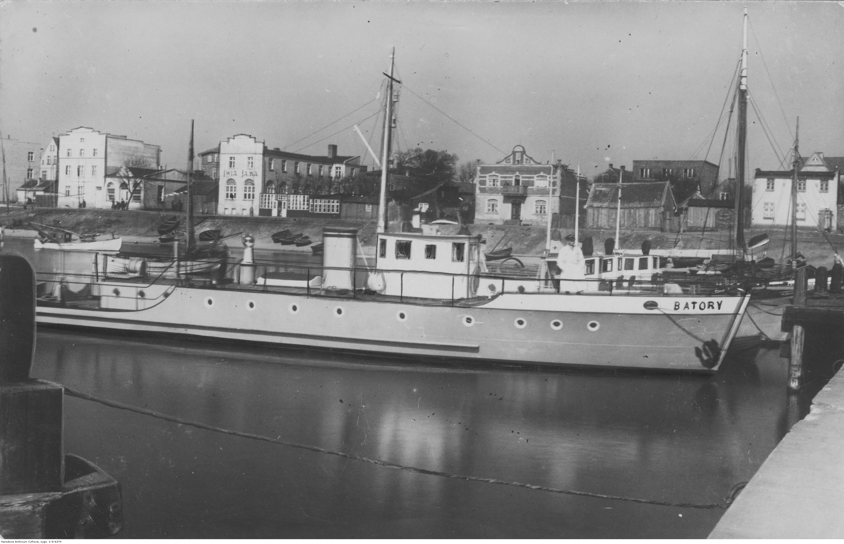 Patrol boat of Polish Border Guard "Batory" in Hel harbour